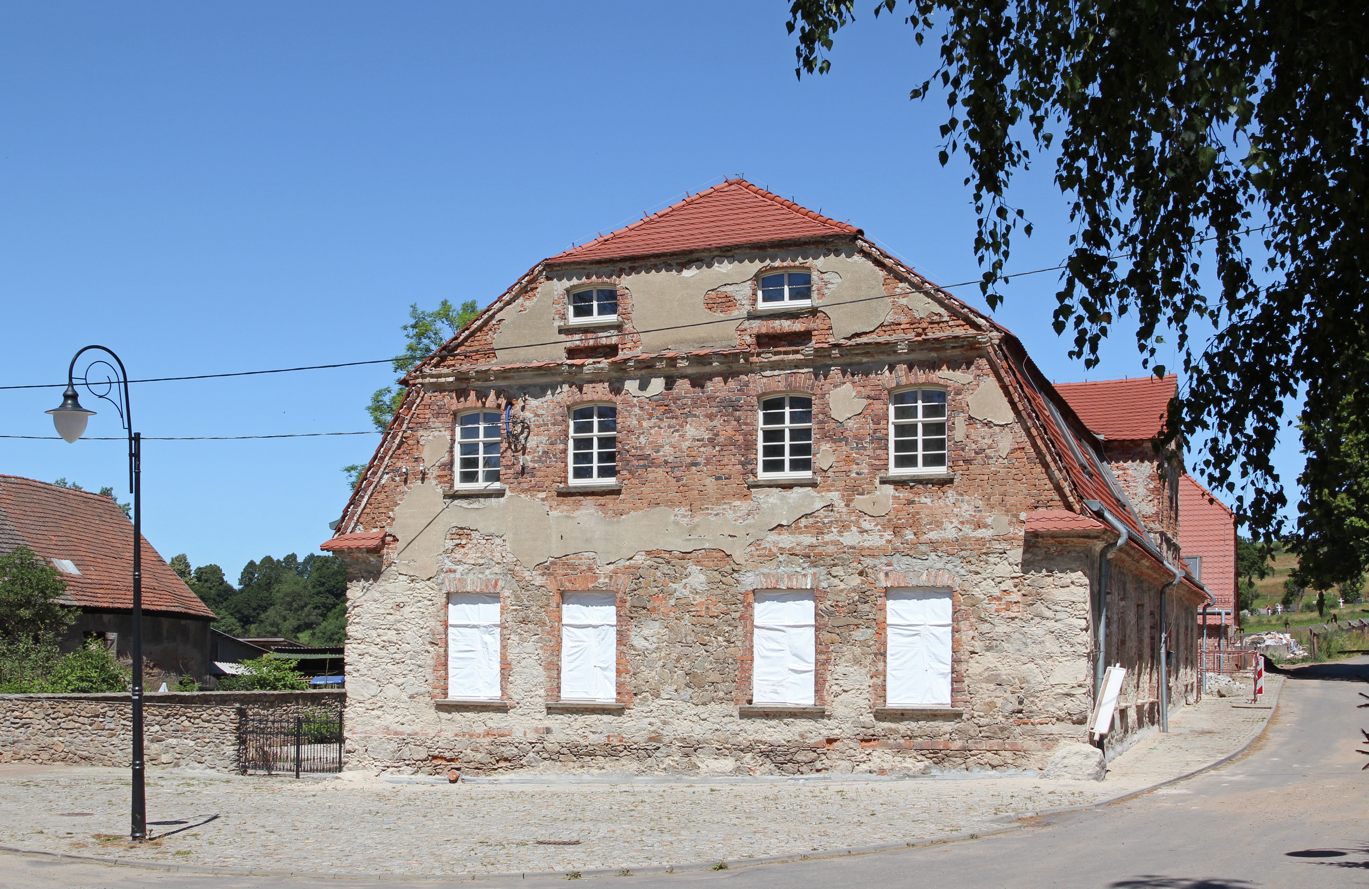 Former inn from XVII/XVIII century in Glinno 25